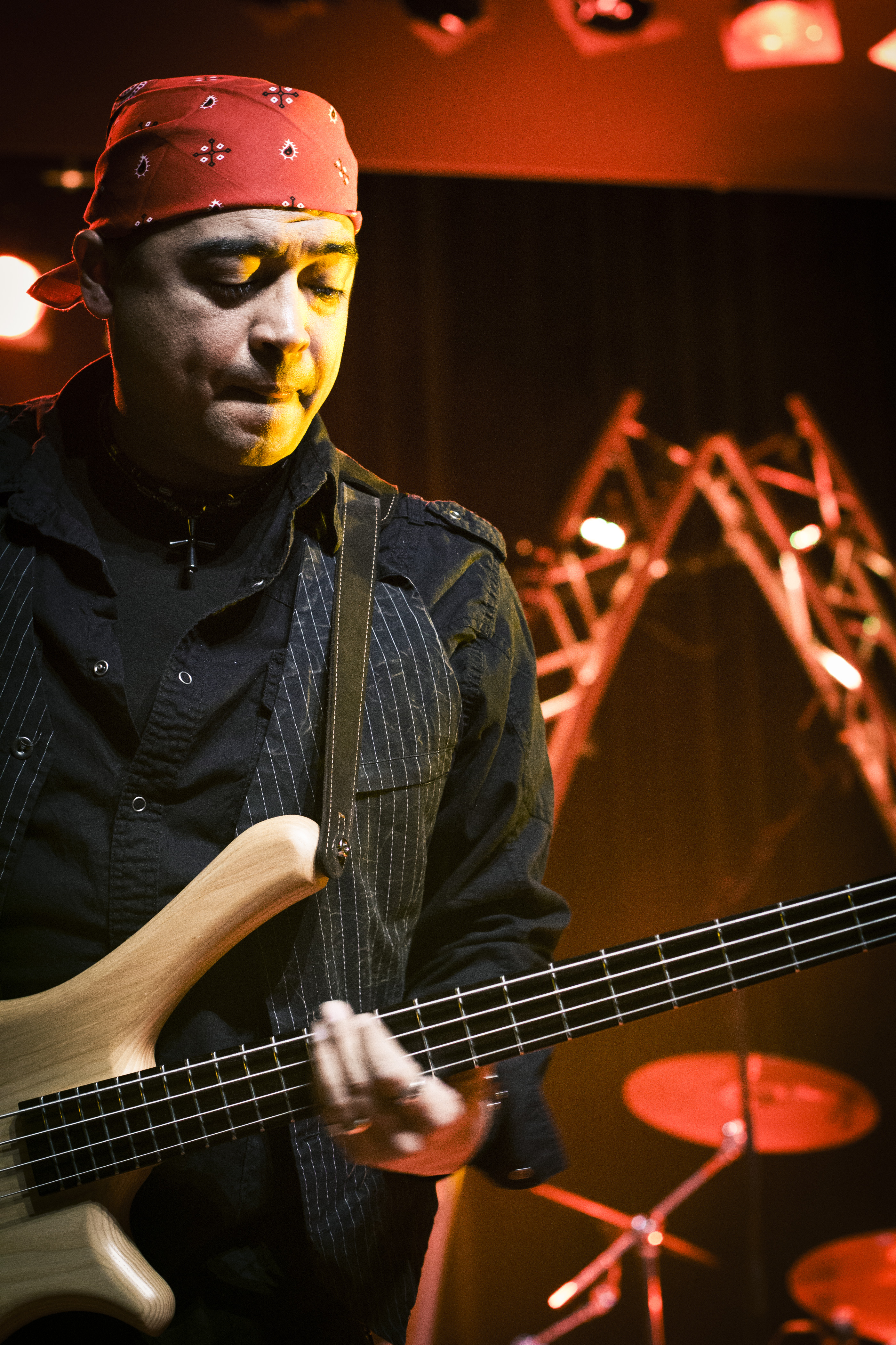 Whitecross at Elements of Rock 2013. Benny Ramos, bass.